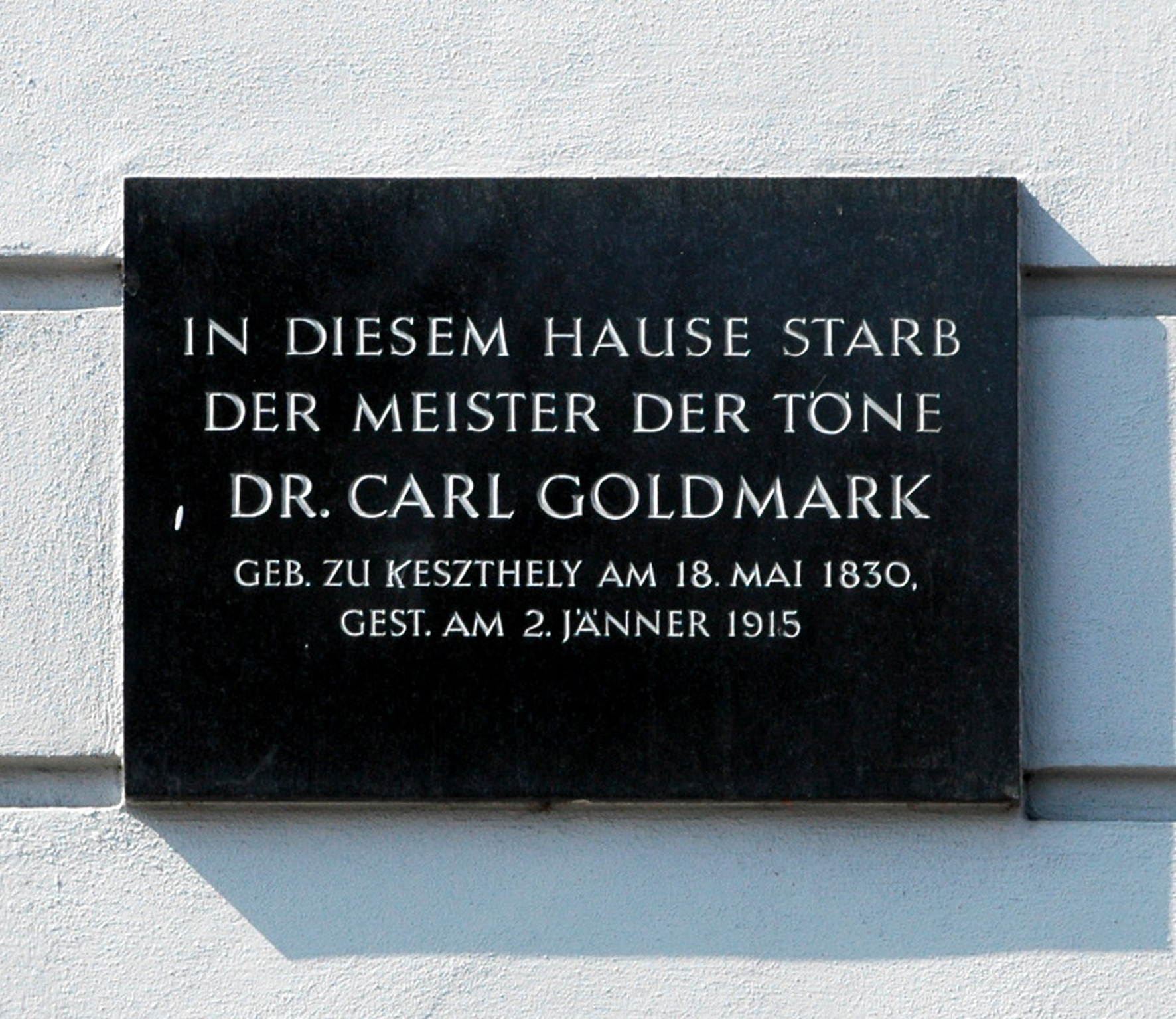 Karl Goldmark, also: Carl Goldmark, composer and teacher. Born Keszthely (megye Zala, Hungary), on 18 May 1830, son of a cantor, lived from 1844 in Vienna. Died on 2 January 1915 (Josef Gallgasse 5 / Böcklinstraße 28, Vienna 2). Composed inter alia the opera "The Queen of Sheba". Text: Salomon Hermann Ritter von Mosenthal. Premiere at the Vienna Court Opera, on 10 March 1875.